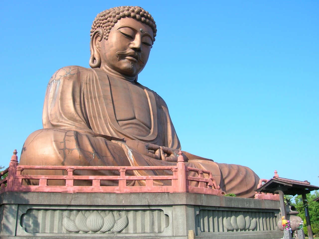 Shurakuen Daibutsu. Loc: Shurakuen Park, Tokai city, Aichi prefecture, Japan.